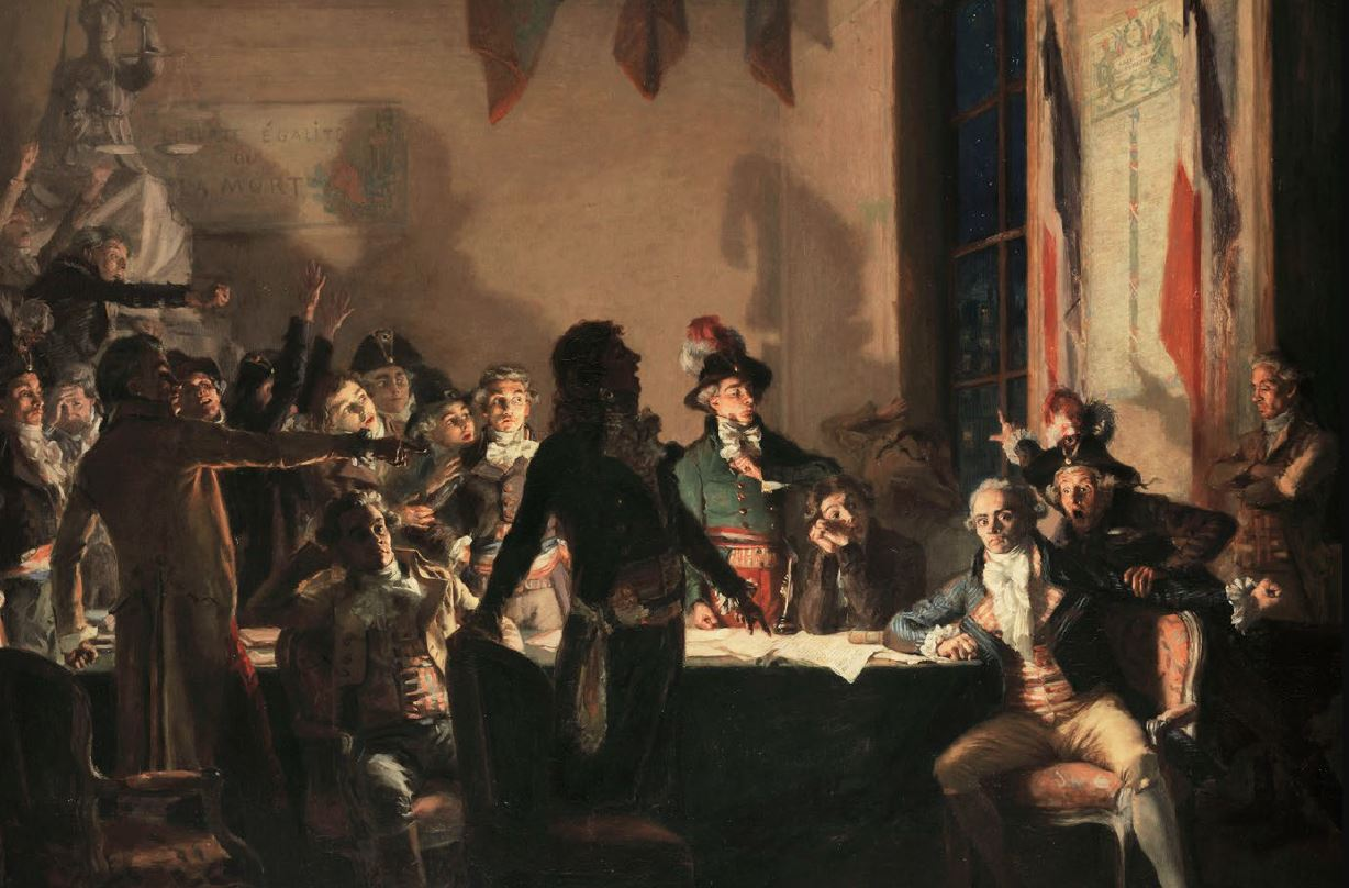 Saint-Just and the members of the committee of execution begged Robespierre to affix his signature at the bottom of the appeal to the insurrection addressed to the Parisian section of the Spades. « On behalf of whom ? » said Robespierre, hesitantly. « In the name of the Convention, she is everywhere where we are ! », replied Saint-Just.